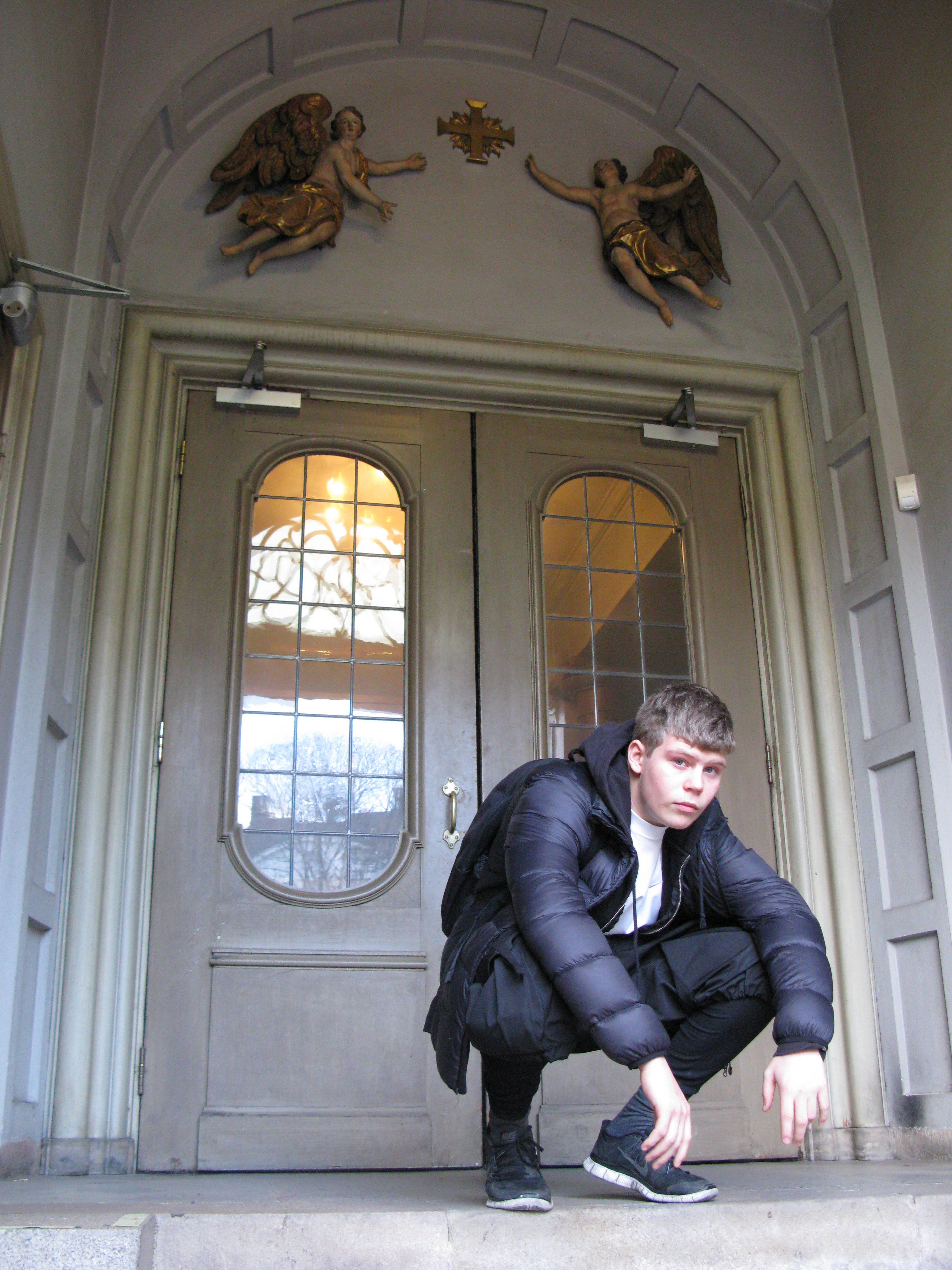 A portrait of artist Yung Lean outside Maria Magdalena kyrka, Stockholm, Sweden, 2013